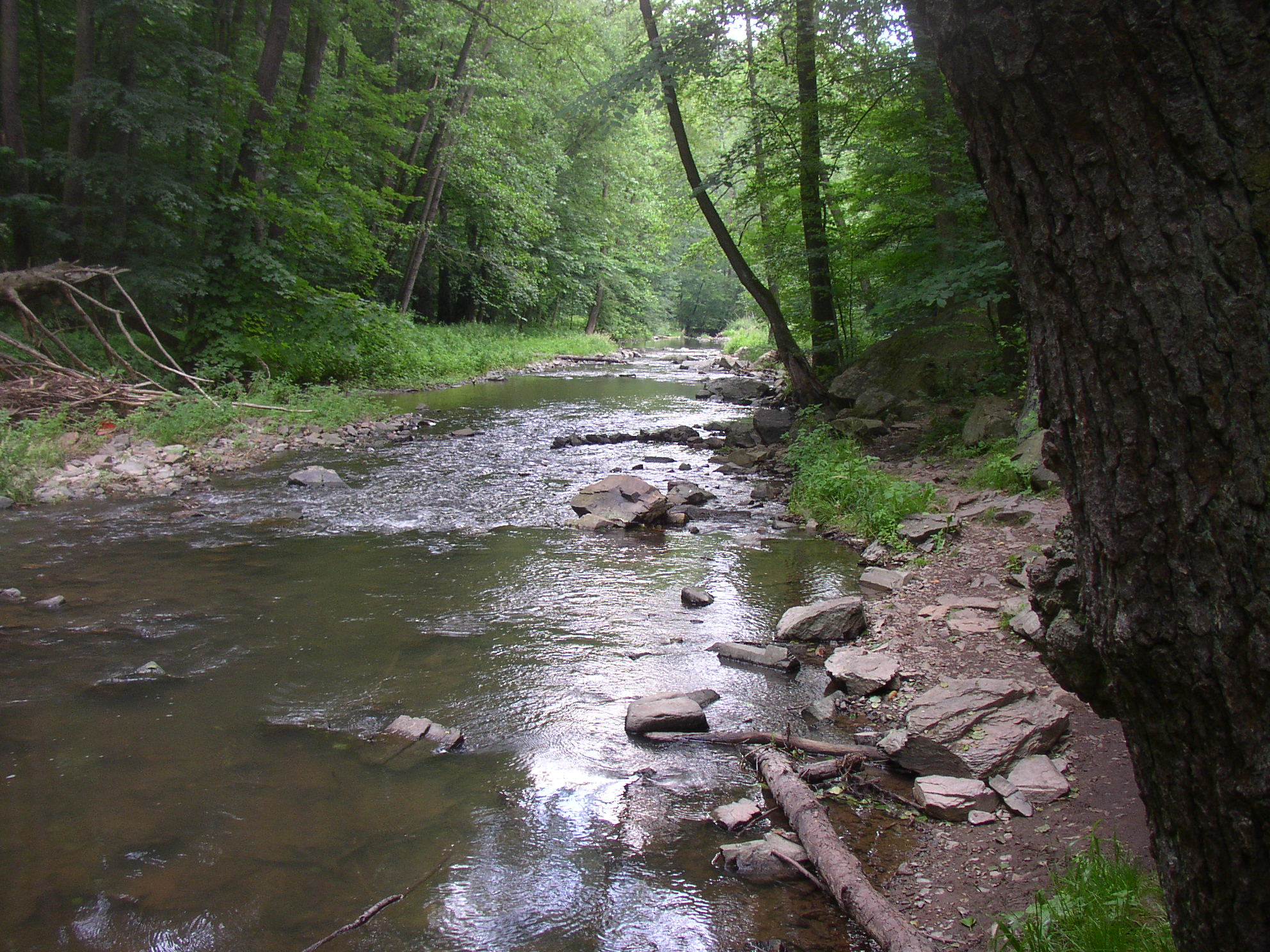 Jezírka Nature Reserve, Rakovník and Rokycany Districts, Czech Republic. Zbirožský potok stream just below two small lakes in the core of the reserve.